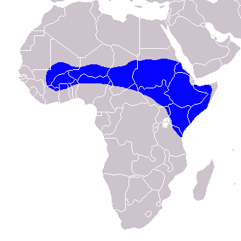 Tockus erythrorhynchus - Distribution